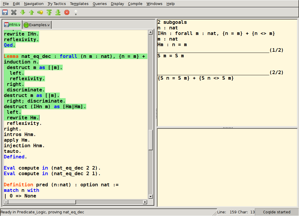 A screenshot of the Coq proof assistant in the middle of a proof of the decidability of equality of the natural numbers.